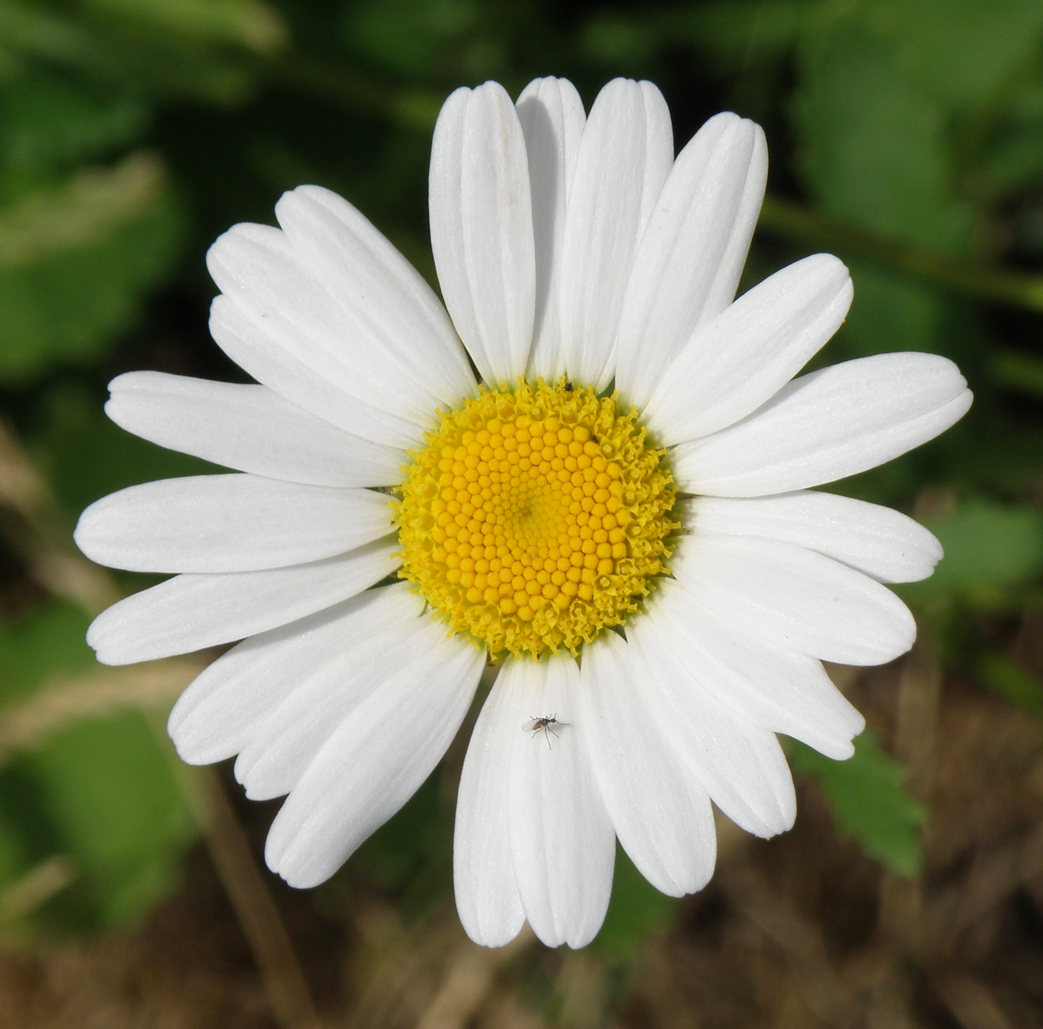 Chamomile, Matricaria recutita